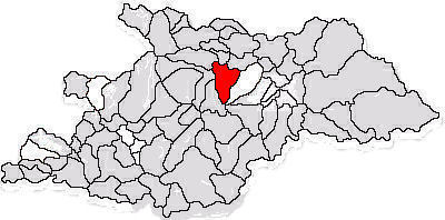 Map of Călineşti commune in Maramureş